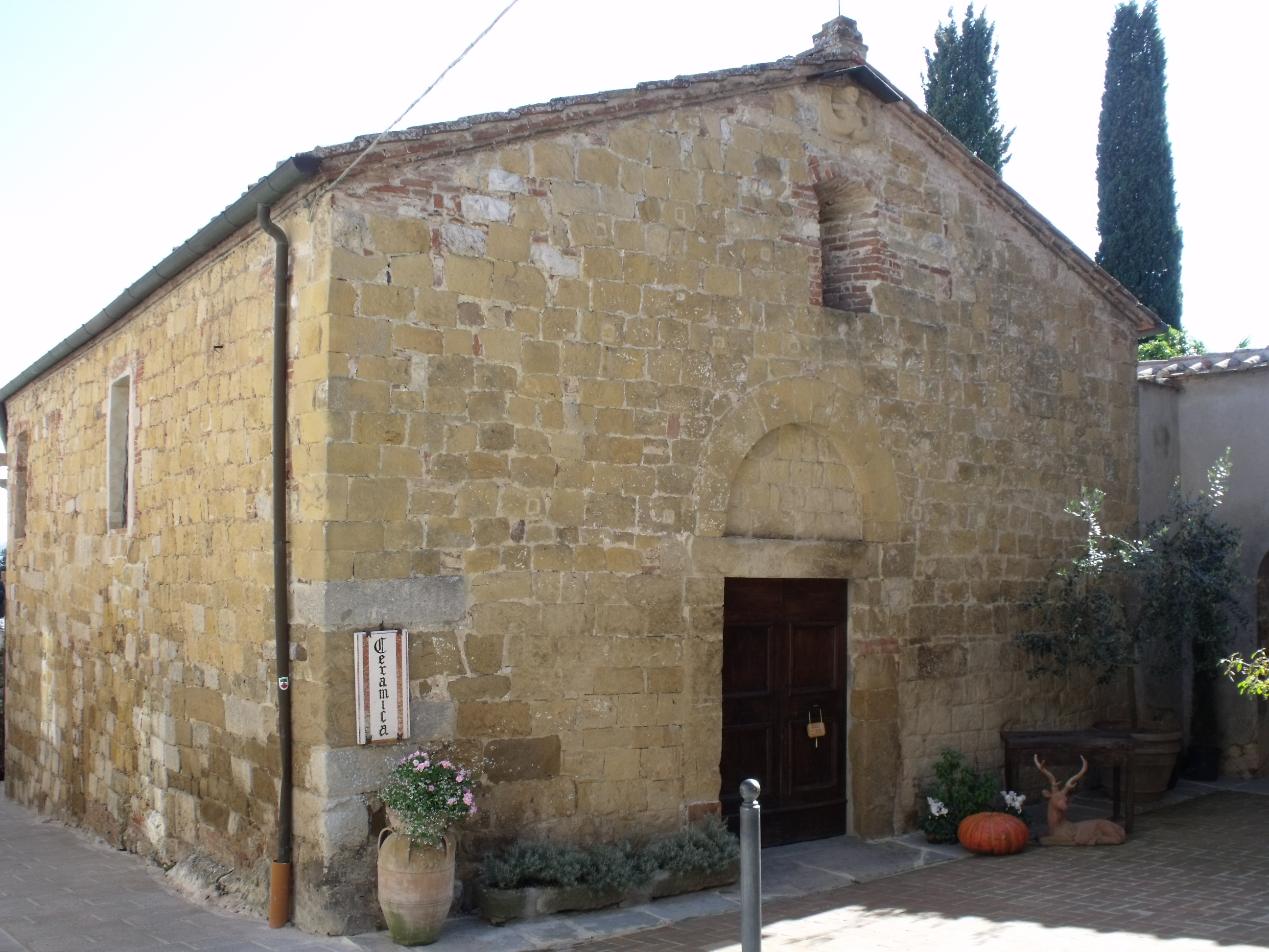 Church / Chiesa di San Bartolomeo in Montefollonico, Torrita di Siena, Province of Siena, Tuscany, Italy